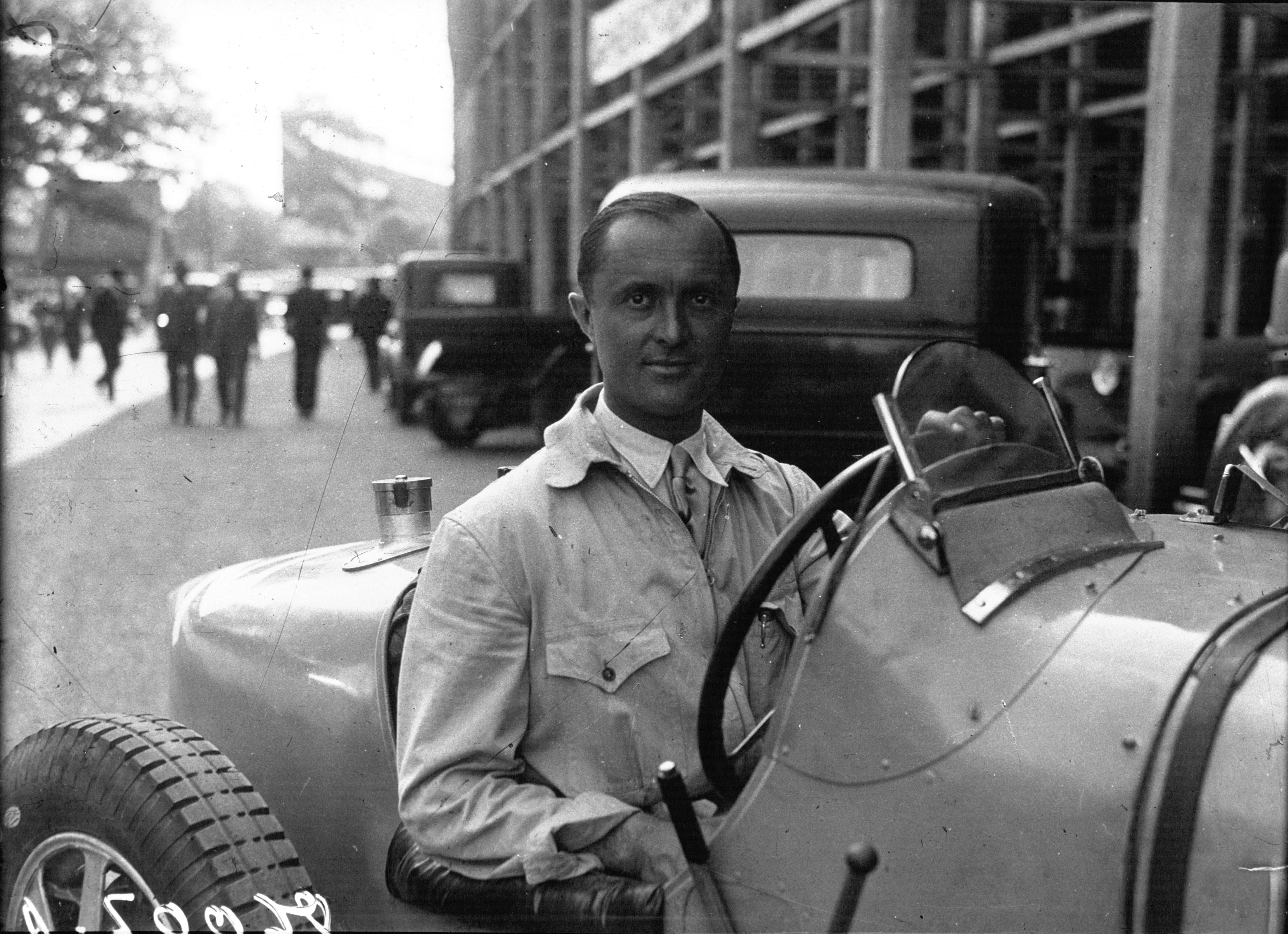 Louis Chiron at the 1931 French Grand Prix